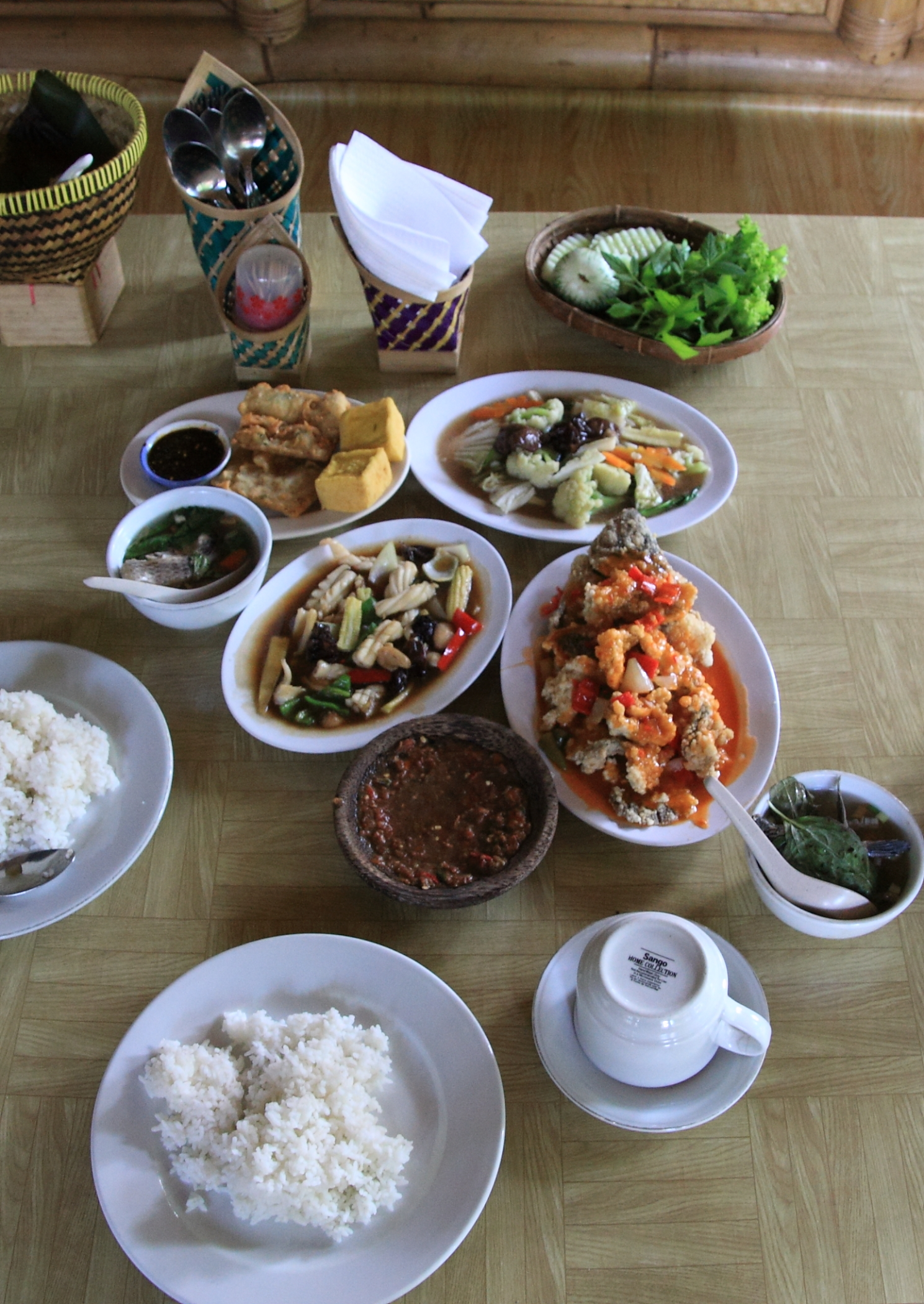 Sundanese Cuisine